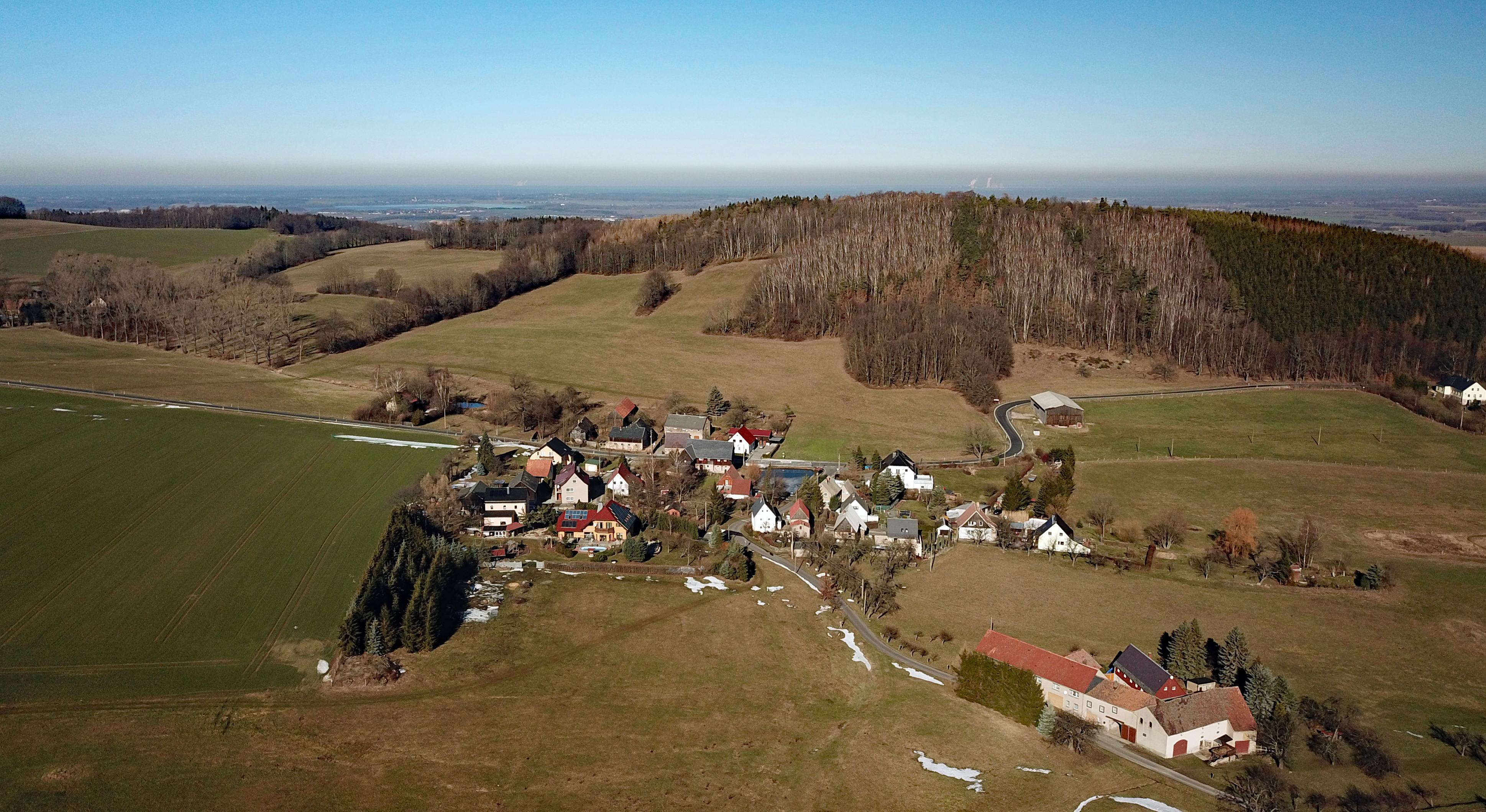 Döhlen, Kubschütz, Saxony, Germany Hornjoserbsce: Powětrowy wobraz Delan